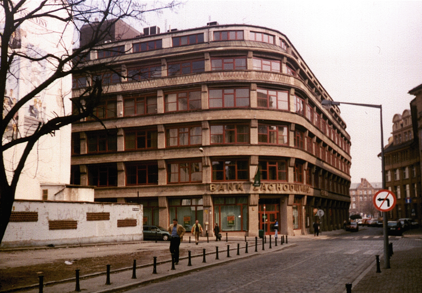 Wrocław, Departament Store by Hans Poelzig, 1912. Early modern movement Photo by myself, 2002 (?)